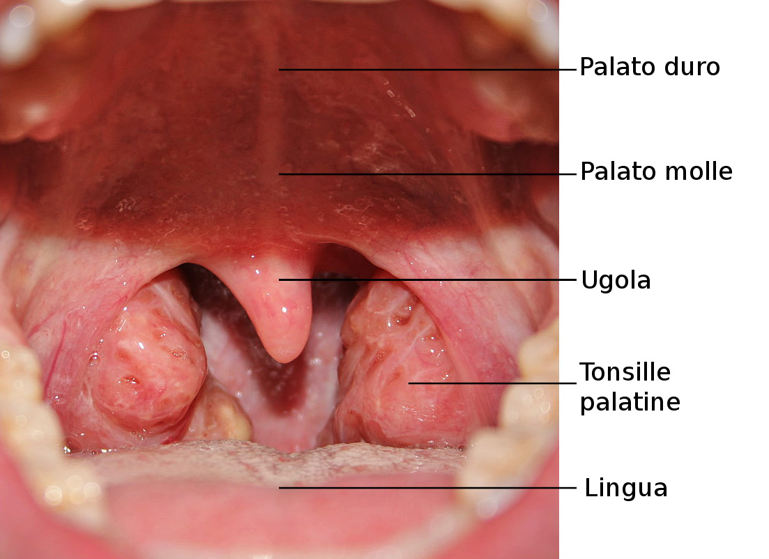 Labelled photograph of the human mouth/throat